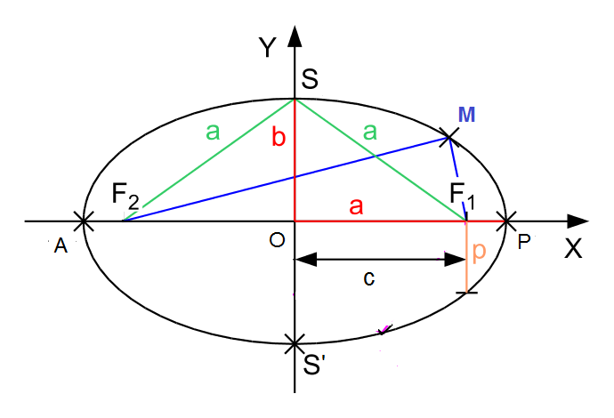 Mains parameters of an elliptic (Keplerian) trajectory of a celestial body.